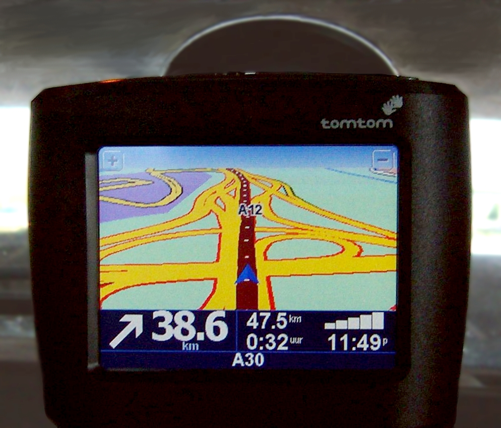 A TomTom.